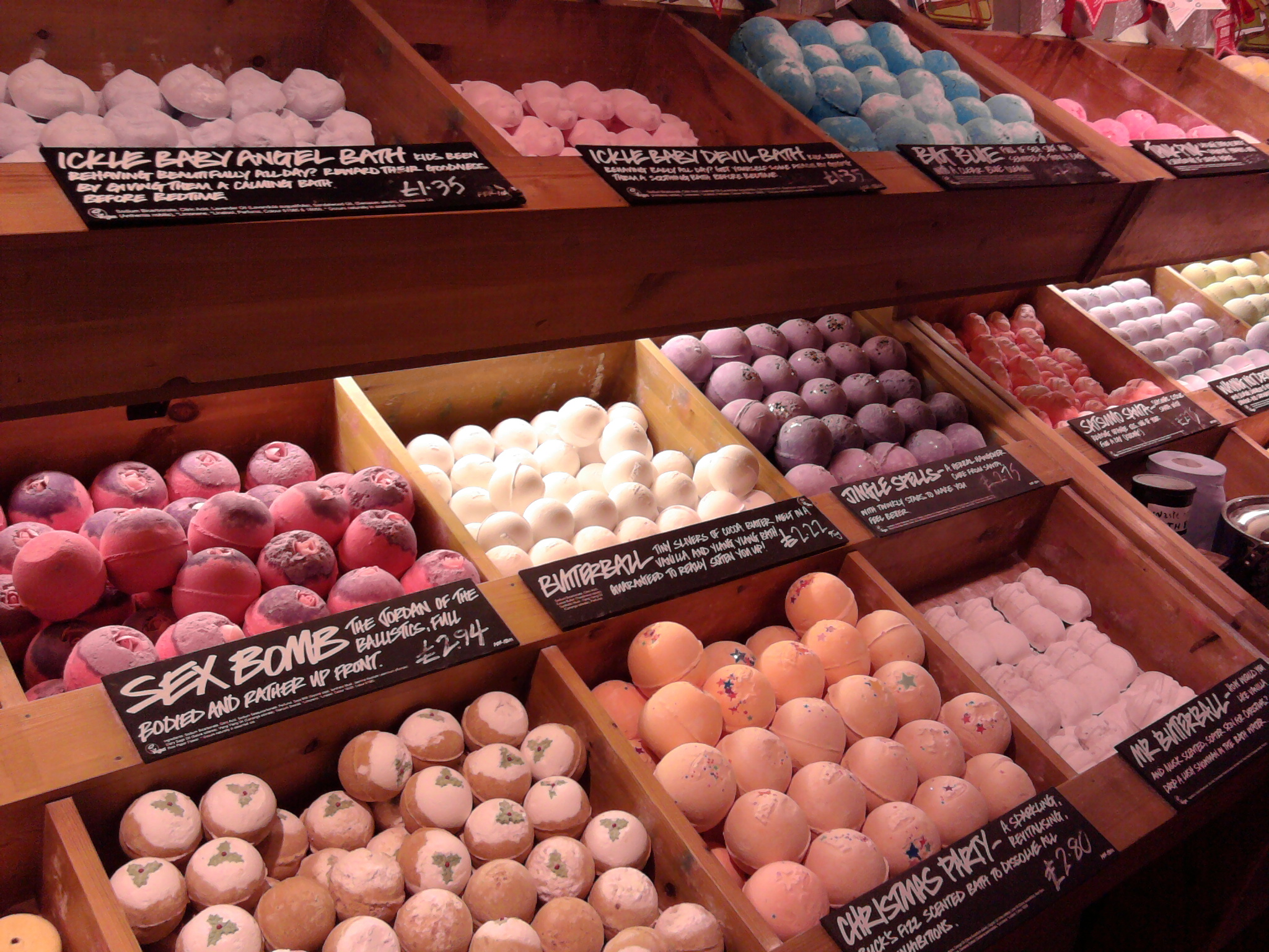 Collection of LUSH brand bath bombs on sale.